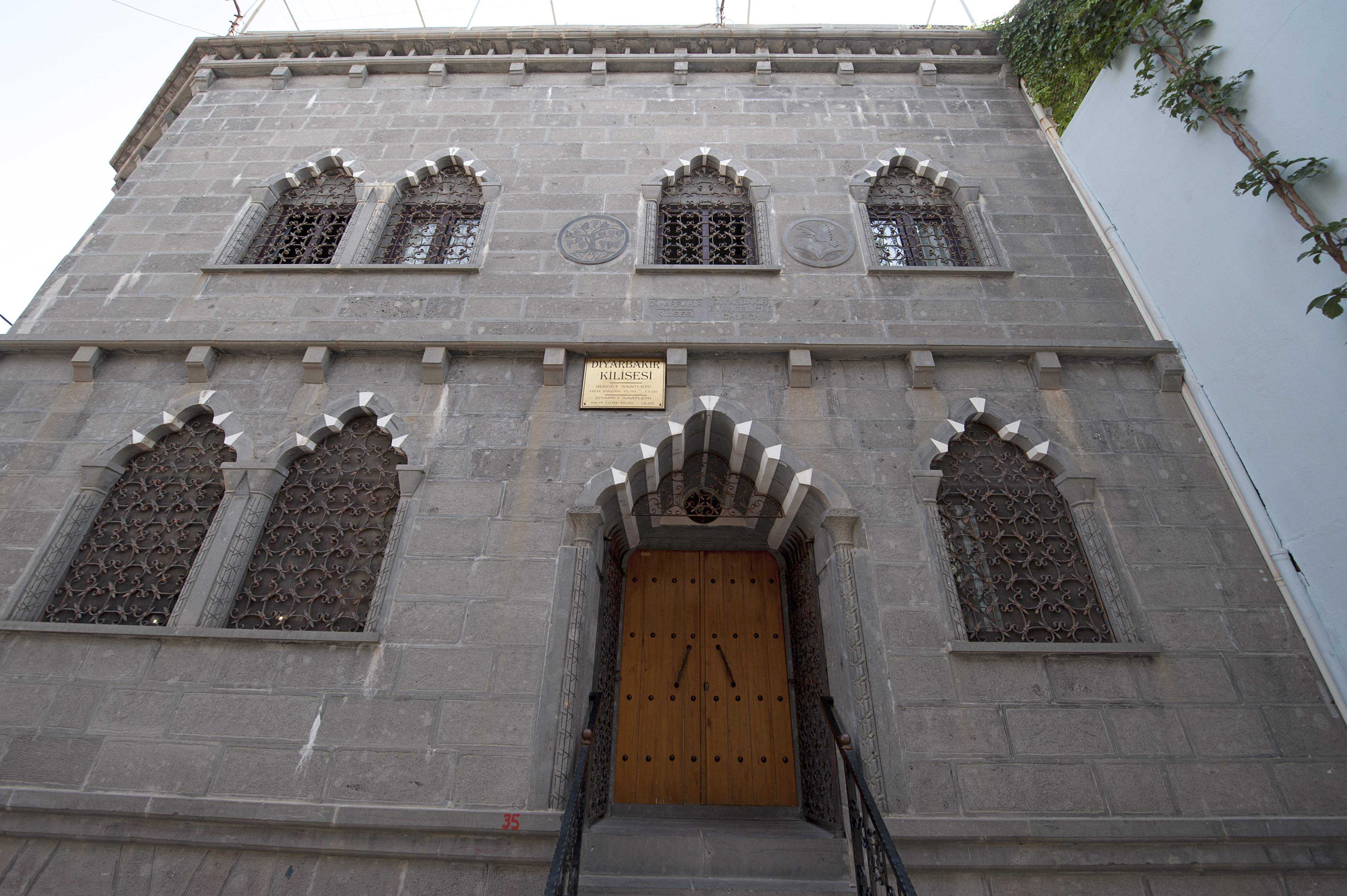 A notice mentioned it was "the" Diyarbakır church, but that may well be different now. It was a nice building with some ancient objects. I failed to get furher information.